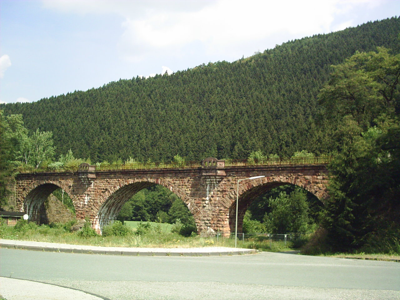 Viaduct Heitmicke, Kirchhundem, Germany check usage